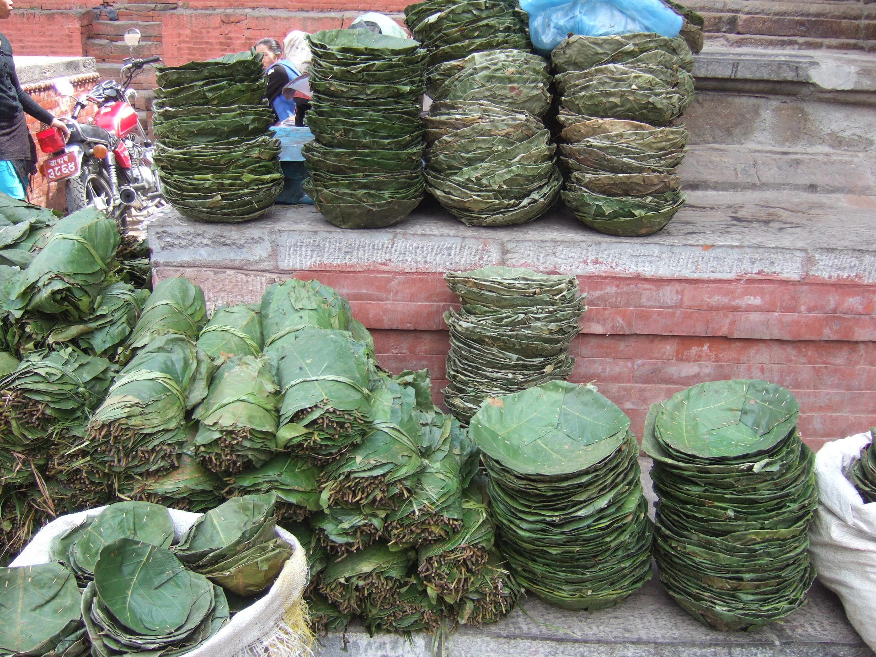 Disposable plates, Kathmandu, Durbar Square